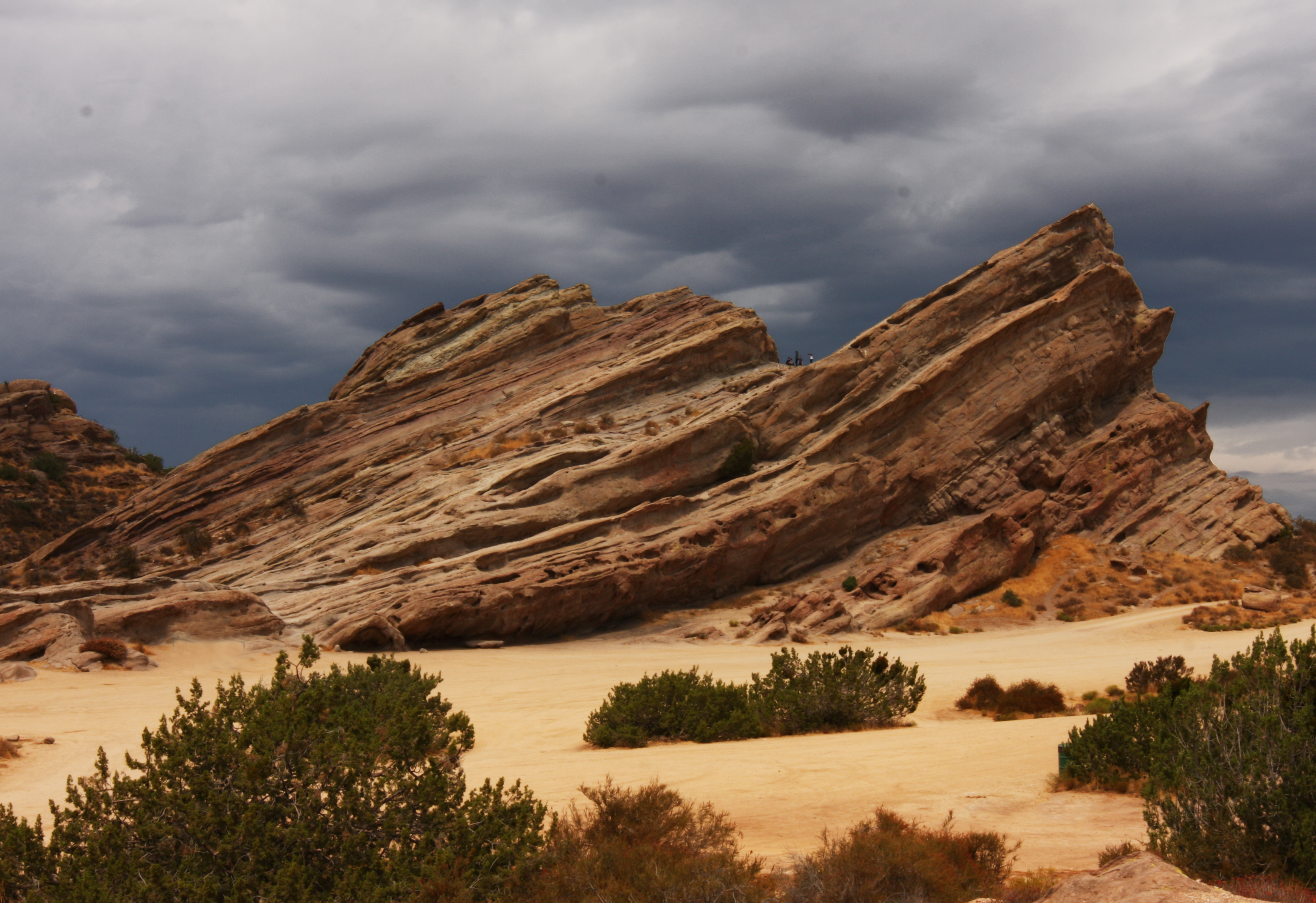 Vasquez Rocks Natural Area County Park rock formations. It is located just north of Santa Clarita off of Highway 14. There is no fee for entering the park. The Flintstones motion picture and Star Trek (original series) were partially filmed there.